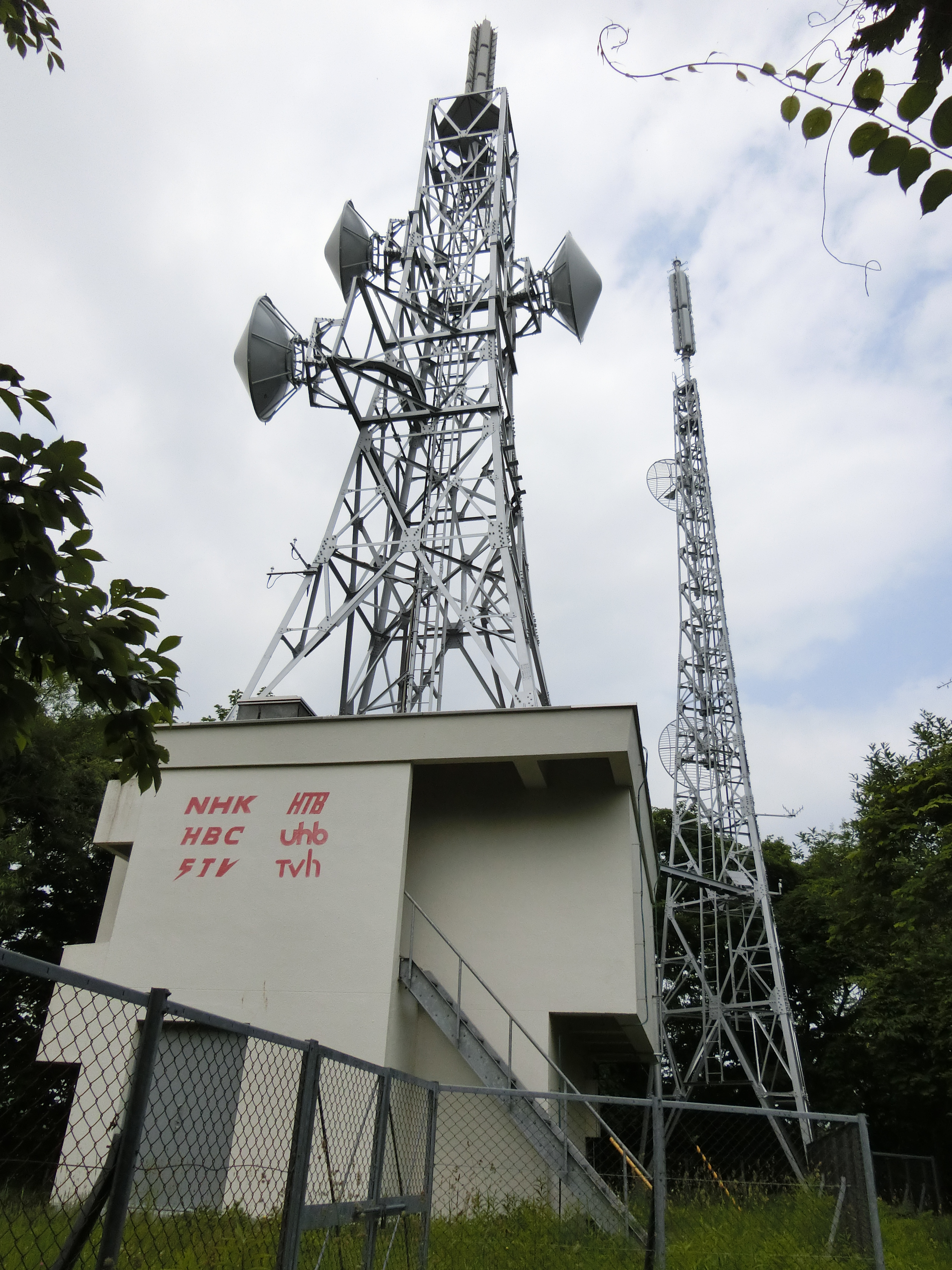 Tomakomai Television Repeater located in Shimizu-cho, Tomakomai, Hokkaido.